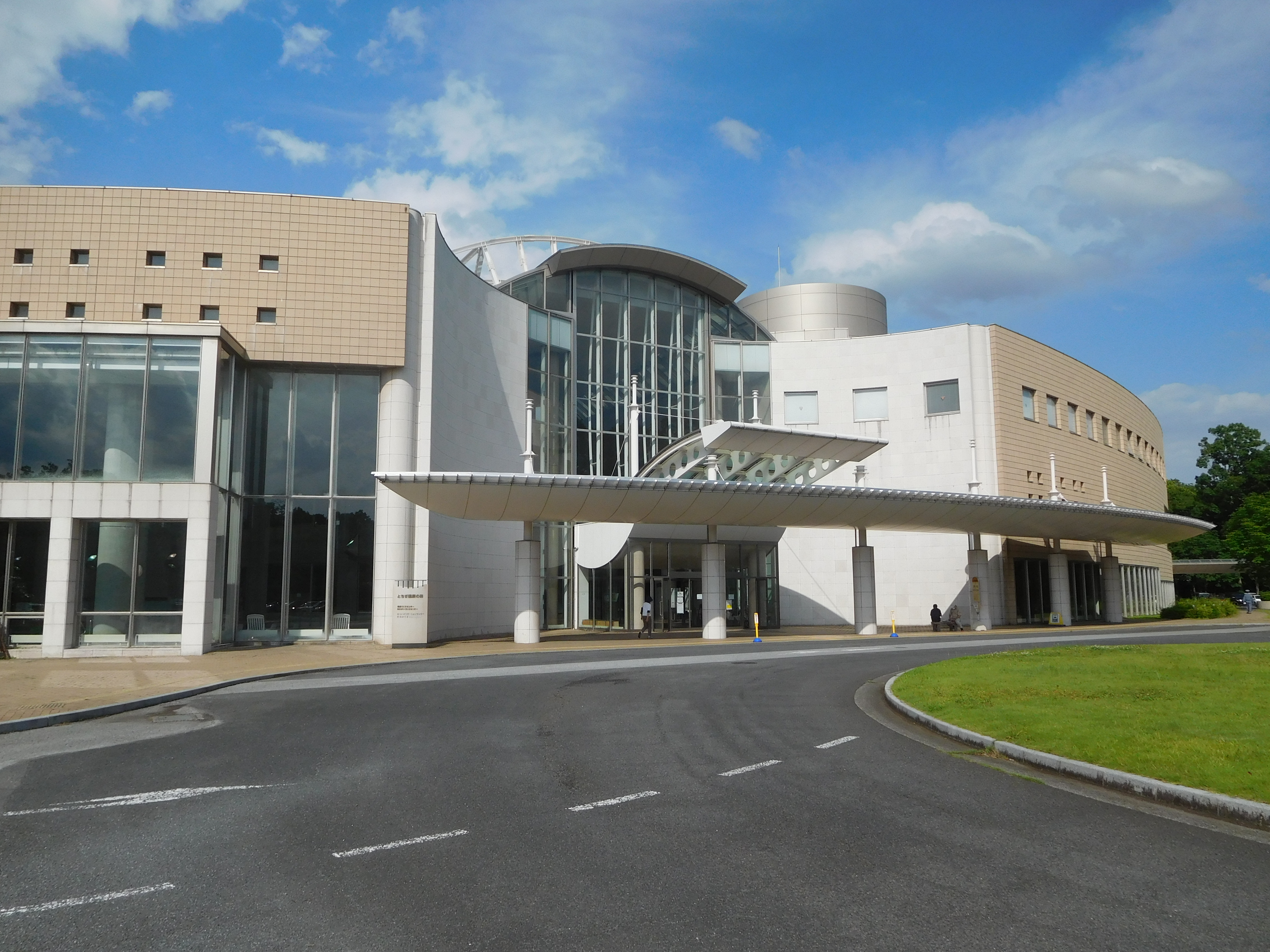 This is Tochigi Forest of Health (Tochigi Kenko no Mori) in Utsunomiya, Tochigi, Japan.